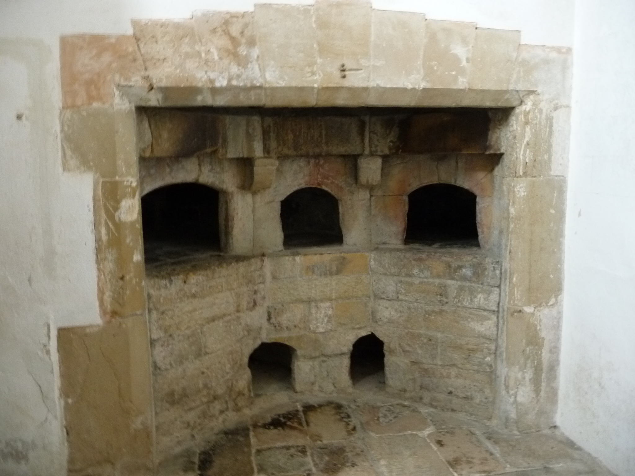 Bolsover Castle in Derbyshire, England was founded in the 12th century by the Peverel family and became Crown property in 1155.